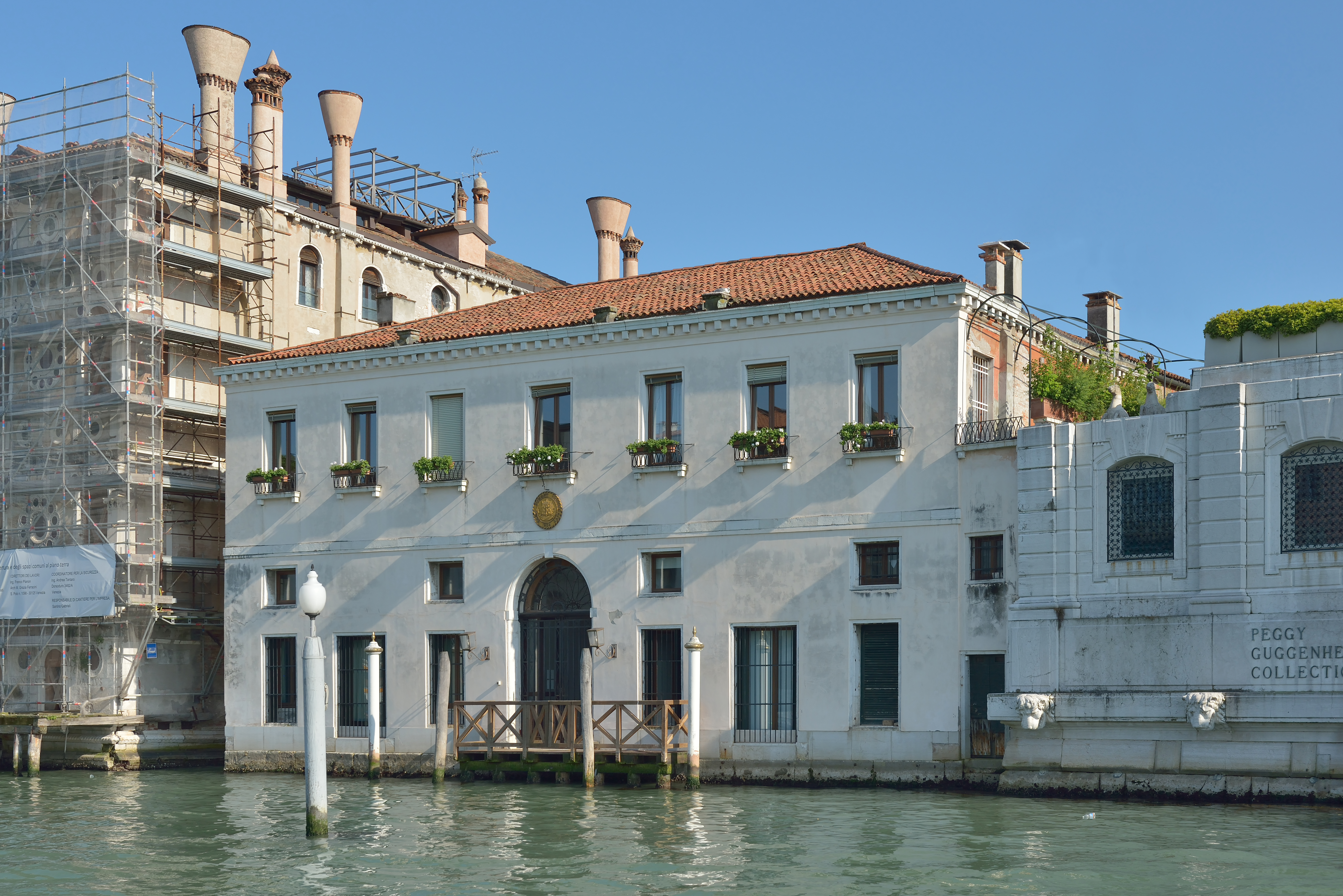 Palace Casa Artom of Wake Forest University in Venice. Facade on Grand Canal.